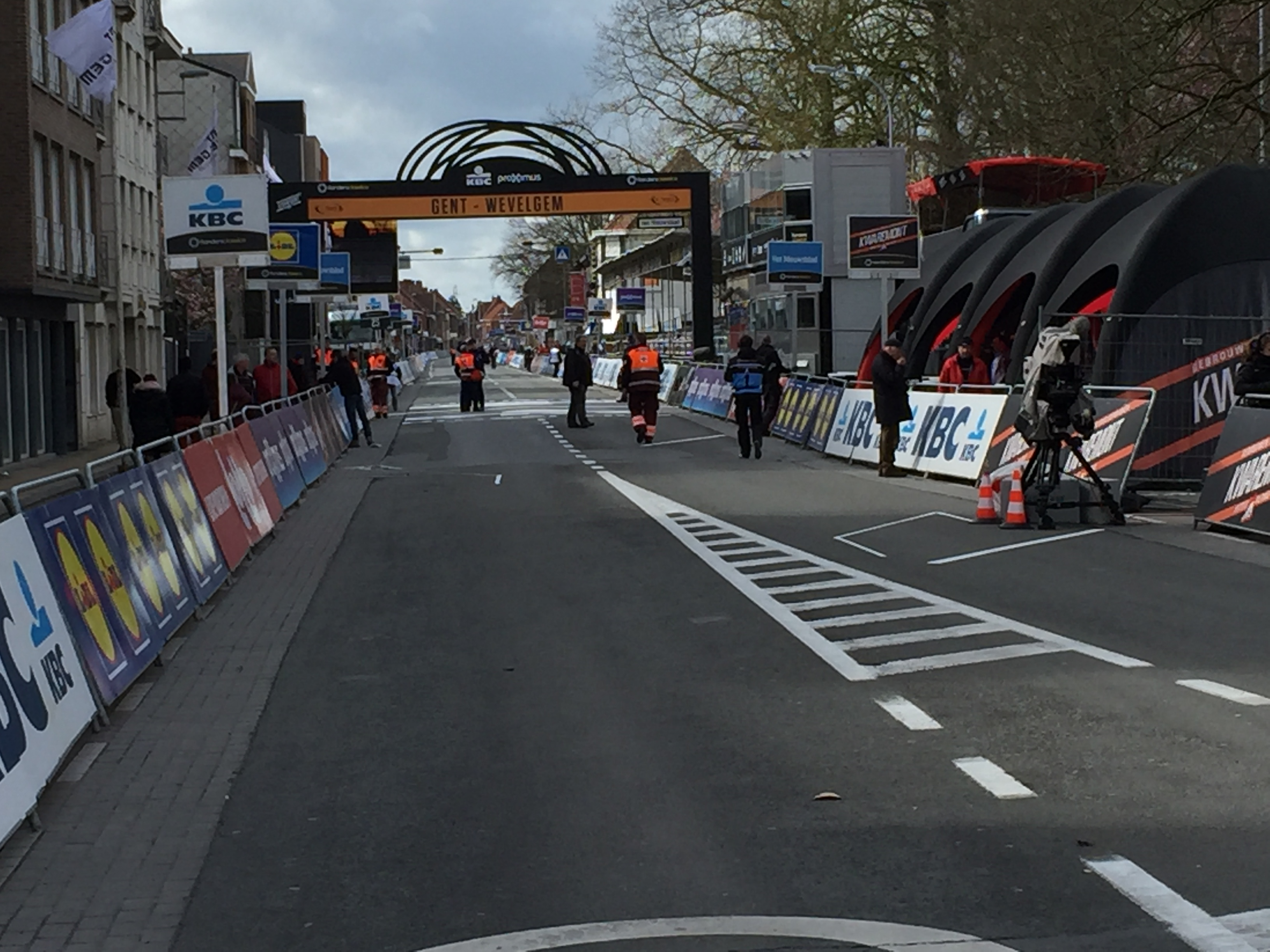 2016 Gent–Wevelgem (women)